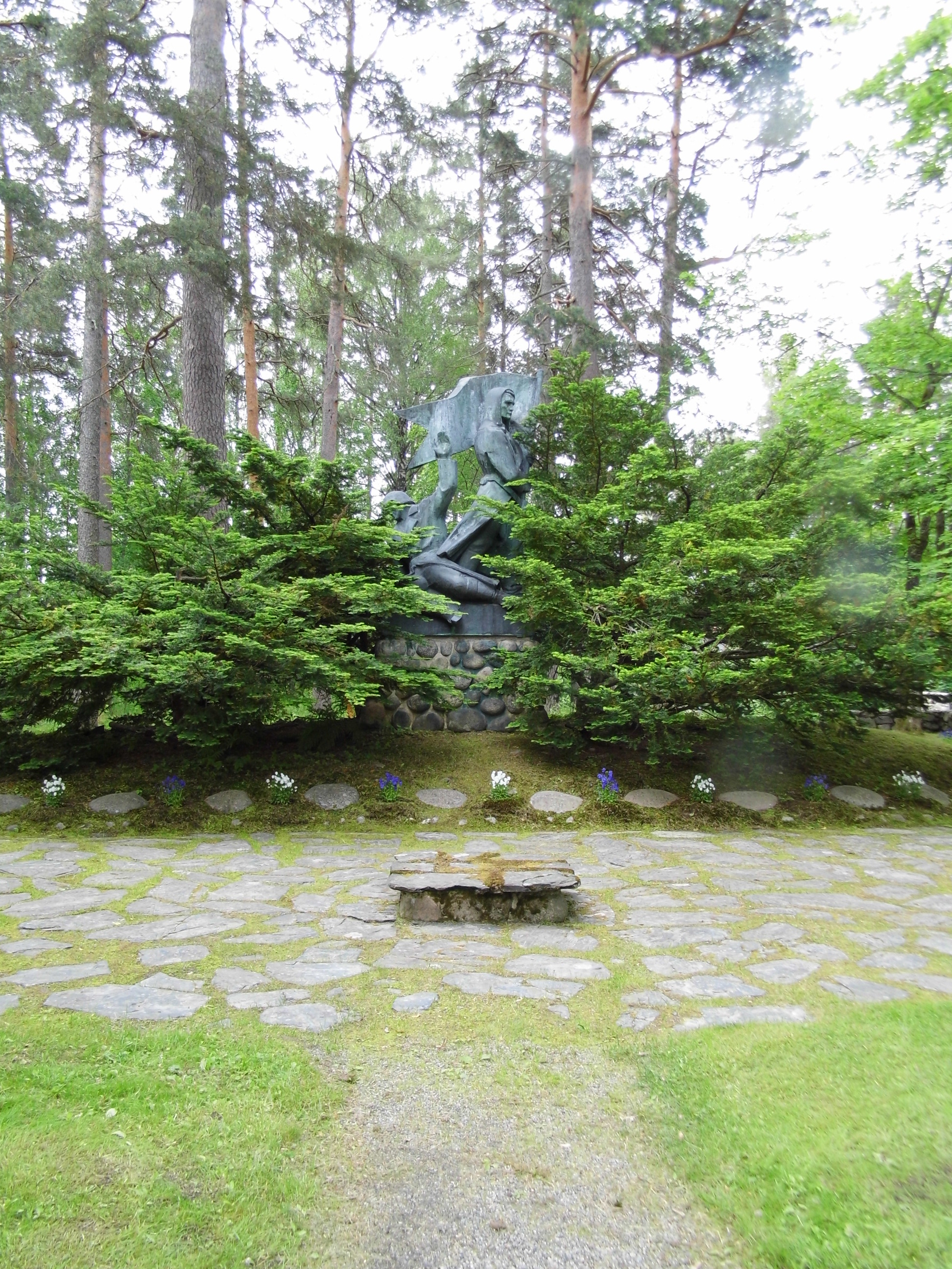 Military cemetary at Säynätsalo Church in Jyväskylä, Finland